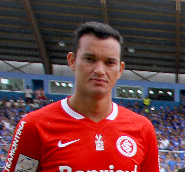 SC Internacional Line-up against Emelec: 22 Alisson, 14 Ernando, 4 Juan, 3 Rever, 2 Léo, 5 Nicolás Freitas, 19 Nilton, 20 Charles Aránguiz, 12 Alex, 6 Fabricio, 9 Eduardo Sasha